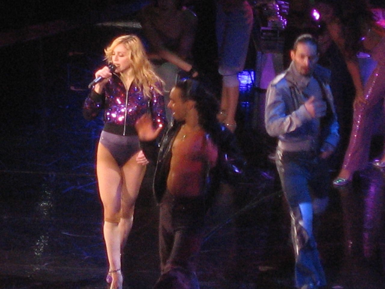 Confessions Tour at Wembley Arena August 1, 2006.